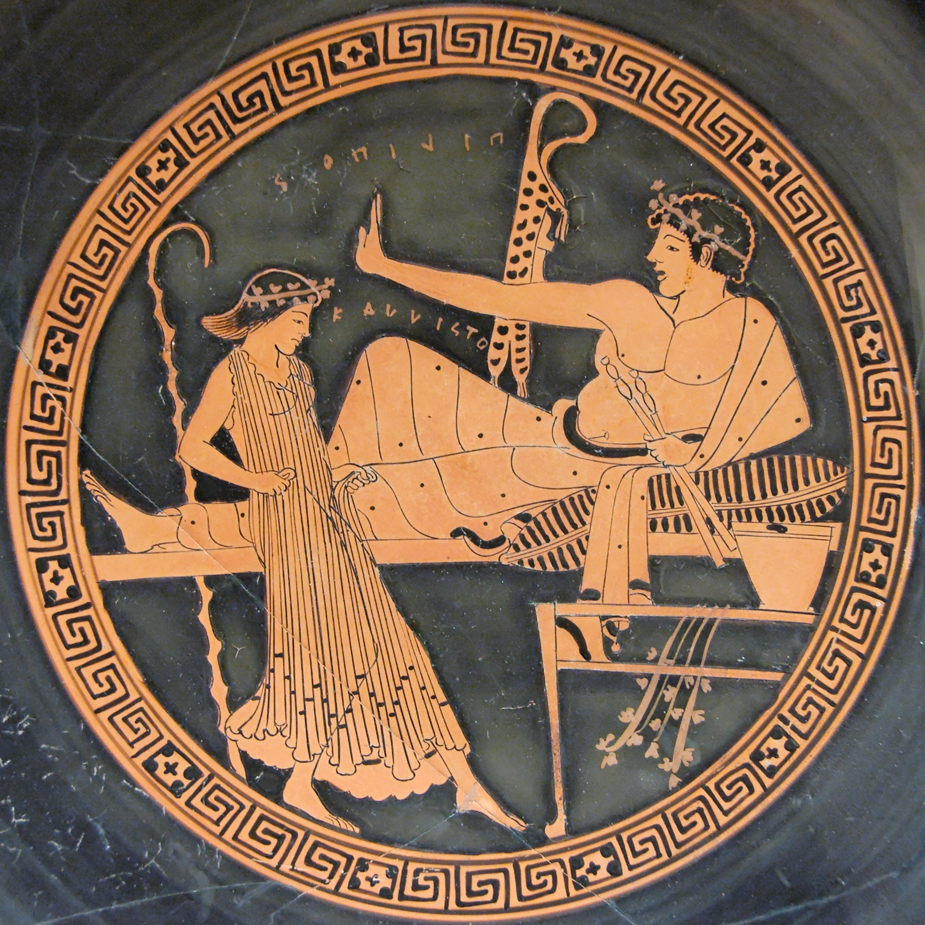 Symposium scene: a reclining youth holds an aulos in one hand and gives another one to a female dancer. Kalos inscription: "PILIPOS KALLISTO" (Philip is the most beautiful). Tondo from an Attic red-figured kylix, ca. 490-480 BC. From Vulci.